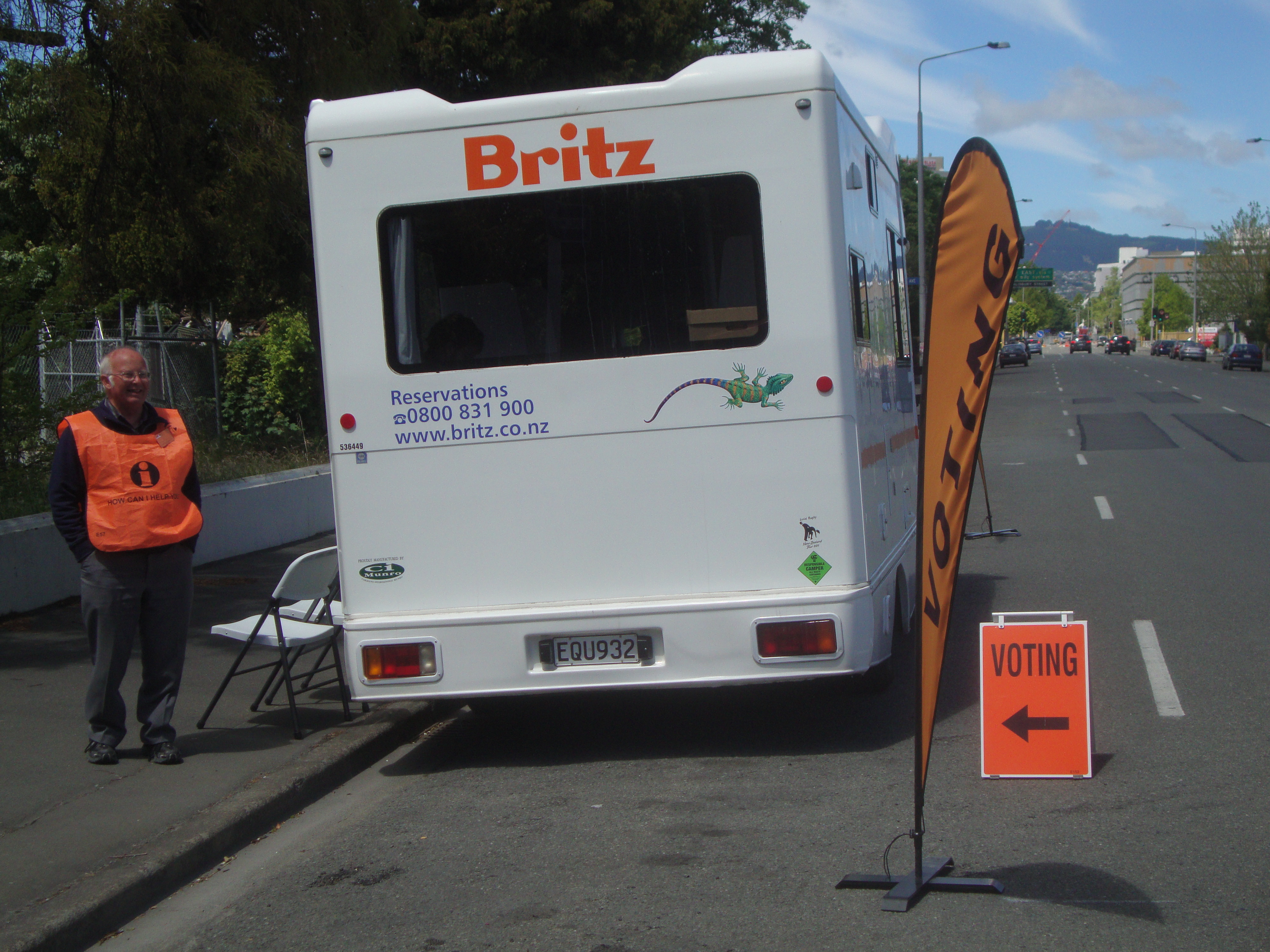 Advance voting in camper vans in Christchurch, as many polling stations are unavailable due to the earthquakes.